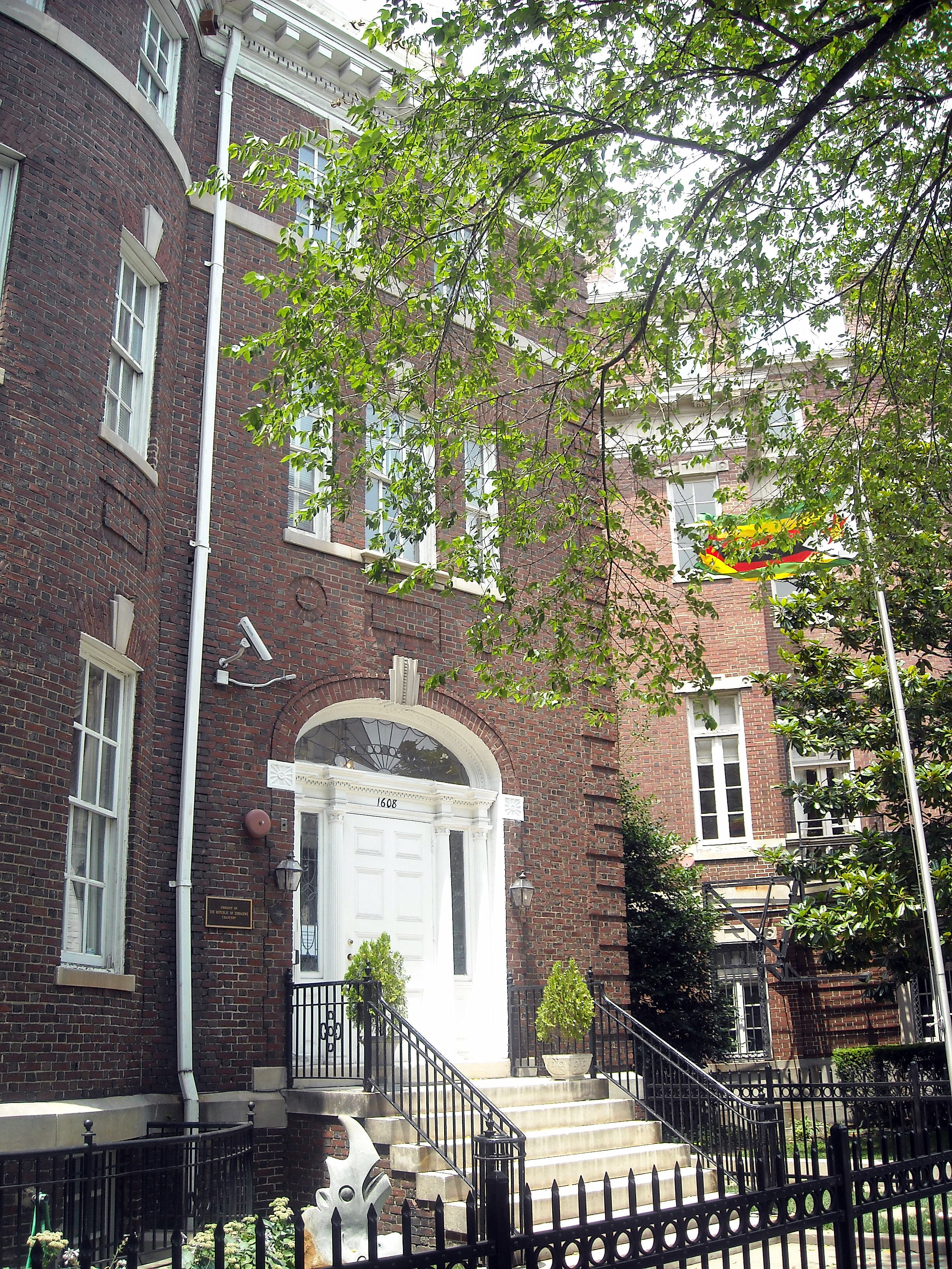 Embassy of Zimbabwe at 1608 New Hampshire Avenue, NW in the Dupont Circle neighborhood of Washington, D.C.